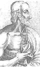 Portrait of Fulk III, Count of Anjou